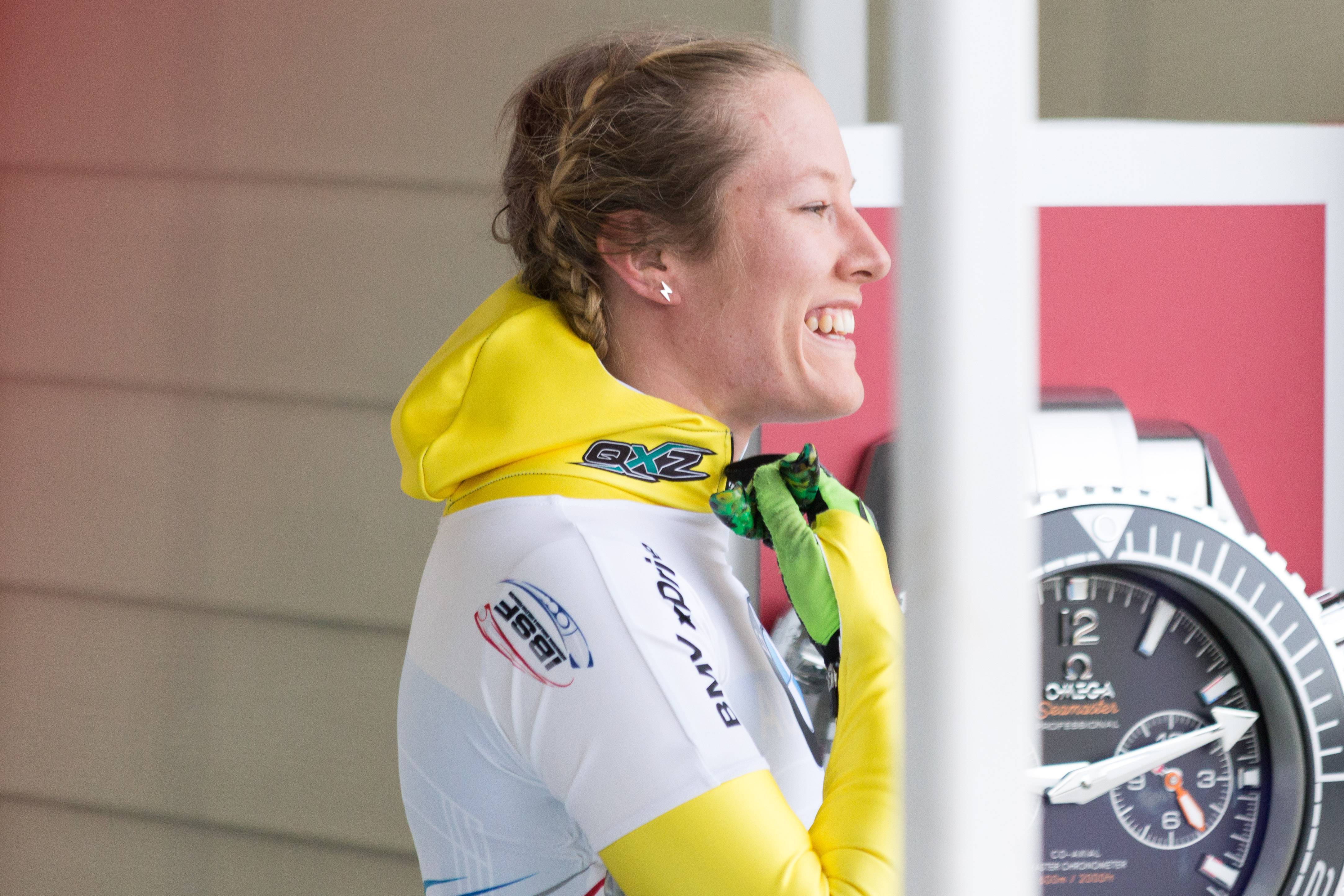 Jaclyn Narracott (AUS) is seen at the finish of her first run in the 2017/2018 BMW IBSF World Cup race in Lake Placid.